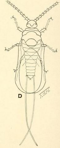 Gossyparia spuria. Eriococcus spurius in